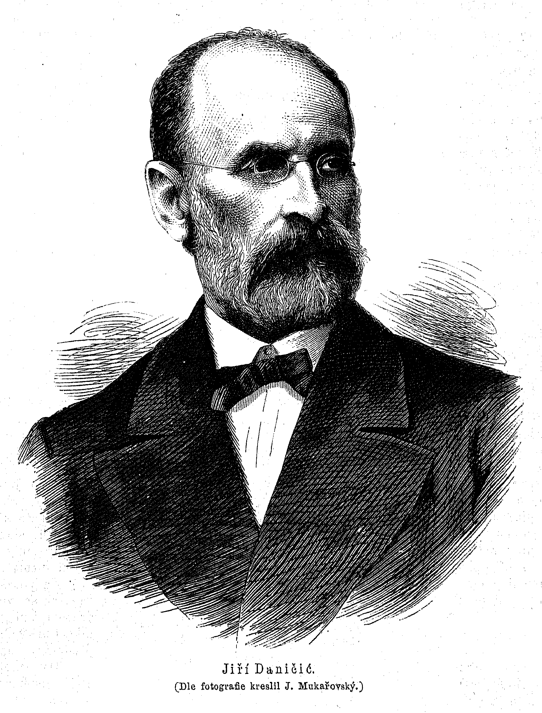 Portrait of Đuro Daničić (1825 - 1882), Serbian linguist from Novi Sad.